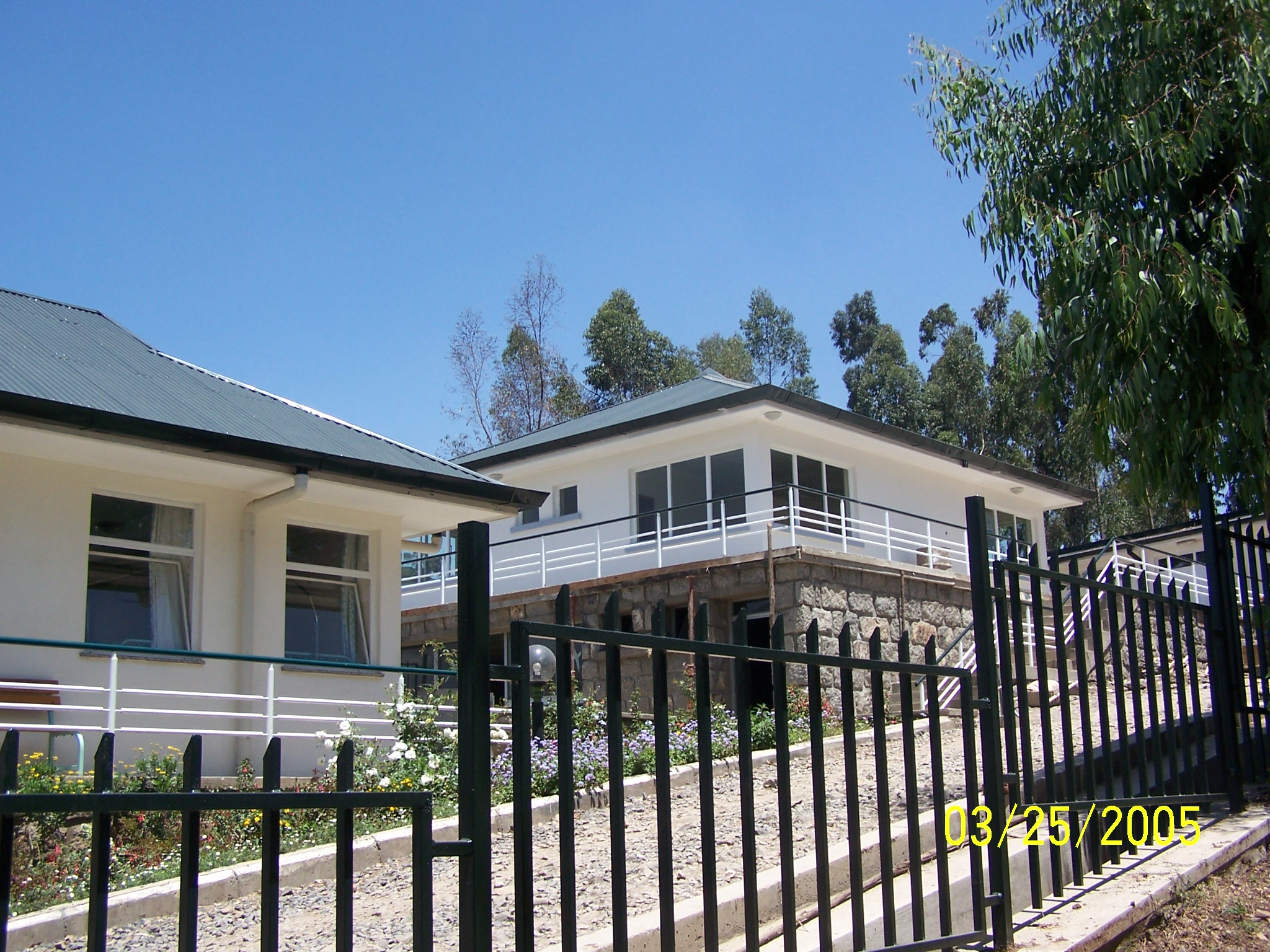 The Addis Abeba Fistula Hospital, a hospital in Addis Ababa specialized in the treatment of vaginal fistulas, a condition which results from birth-related complications and which has severe implications like social isolation for affected women